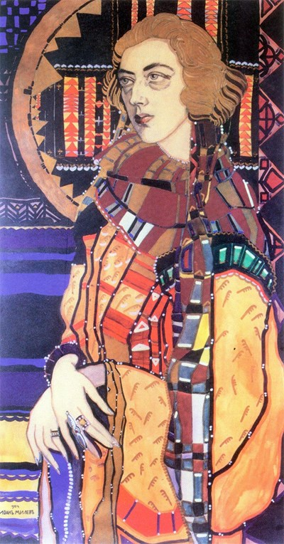 Anna Kamenova by Ivan Milev, 1924